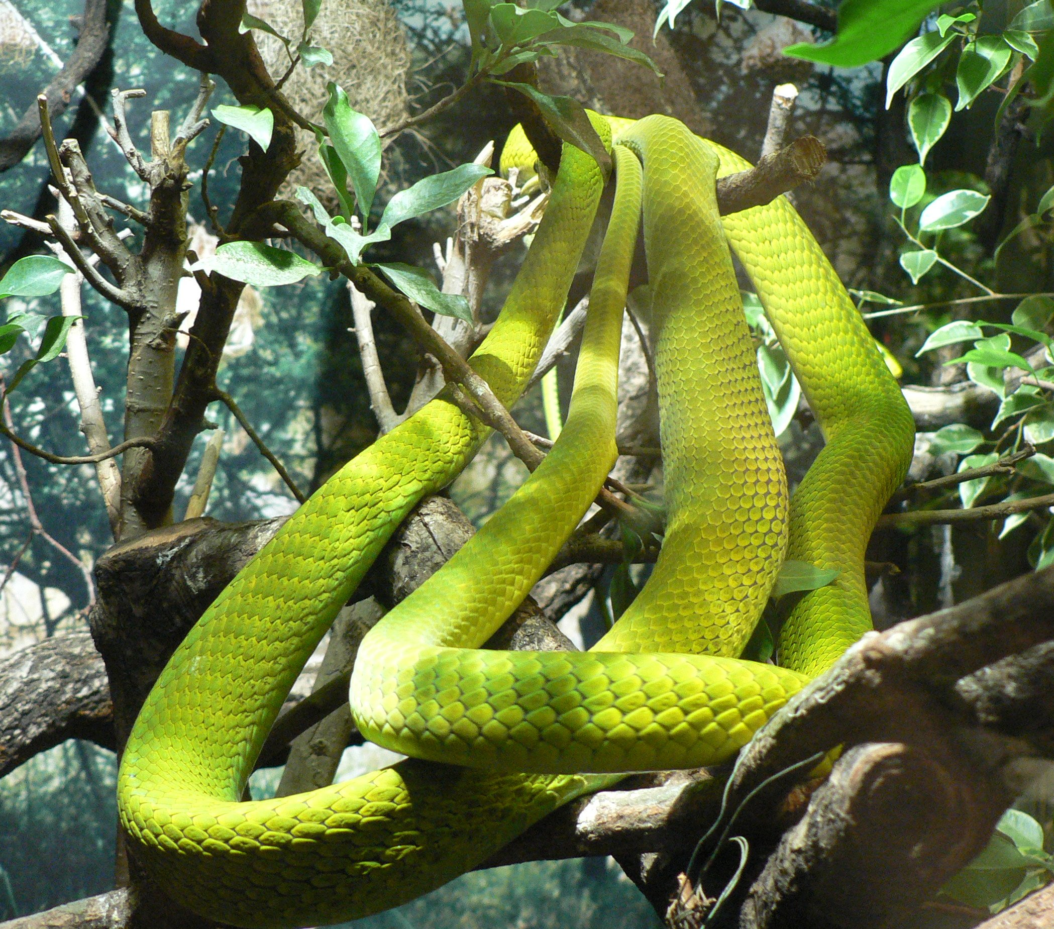 Dendroaspis angusticeps